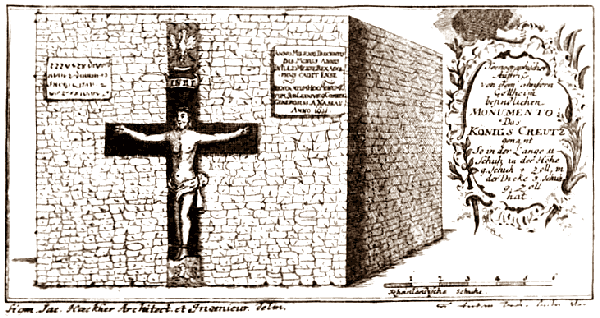 Königskreuz in Göllheim, um 1750